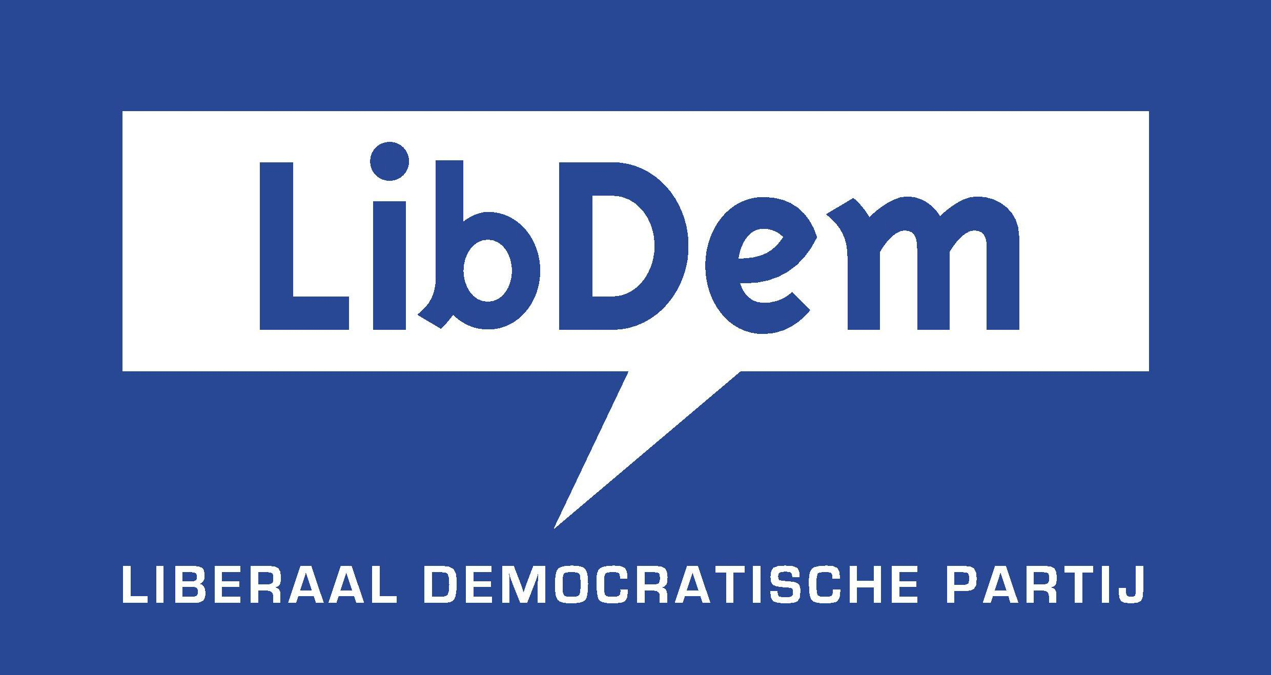 LibDem election poster in de 2012 Dutch general elections